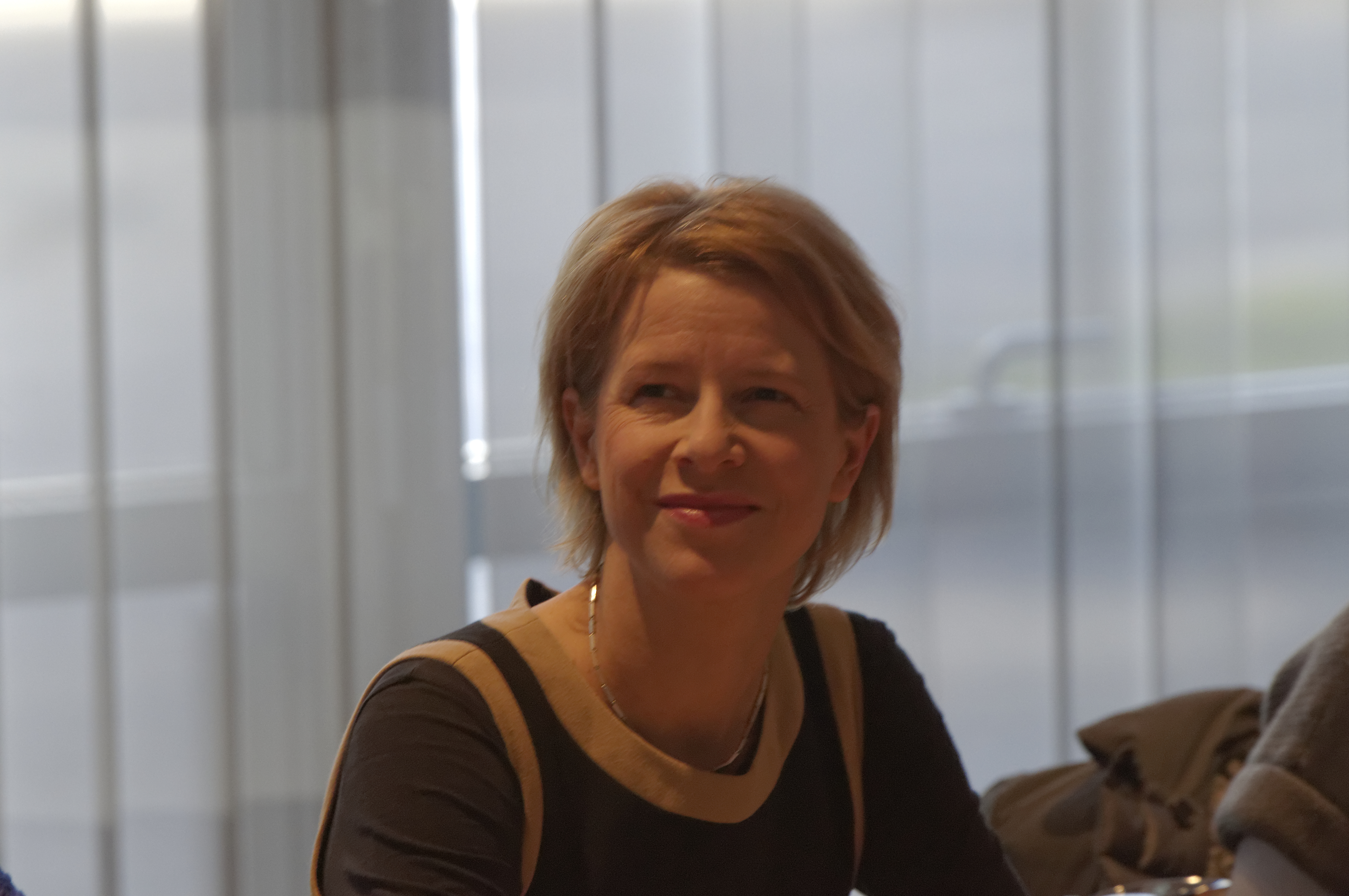 Bettina Braun at the announcement press conference of the winners of the Grimme prize 2013